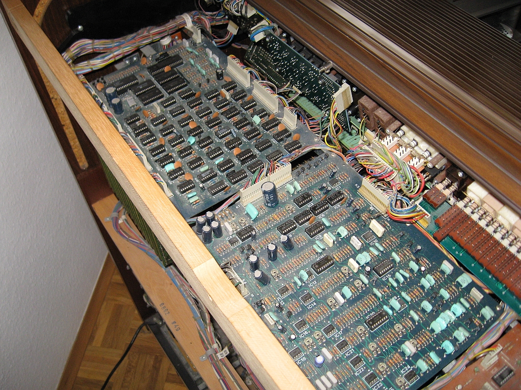 Farfisa Pergamon "technical view 5"